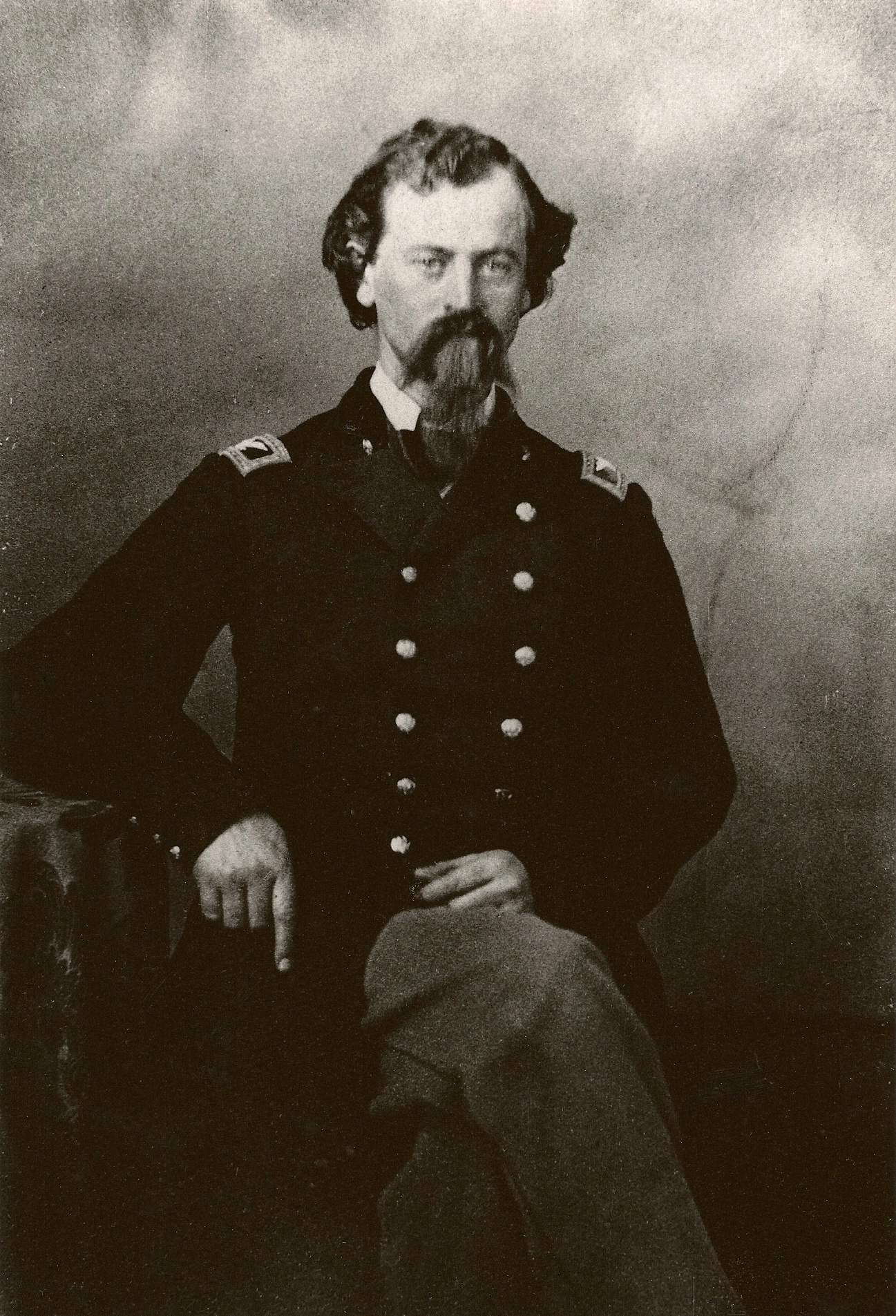 A sitting photographic view of Colonel David B. McKibbin, 158th Regiment, Pennsylvania Volunteer Infantry.